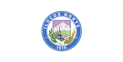 Flag of the Province of Ilocos Norte, Philippines